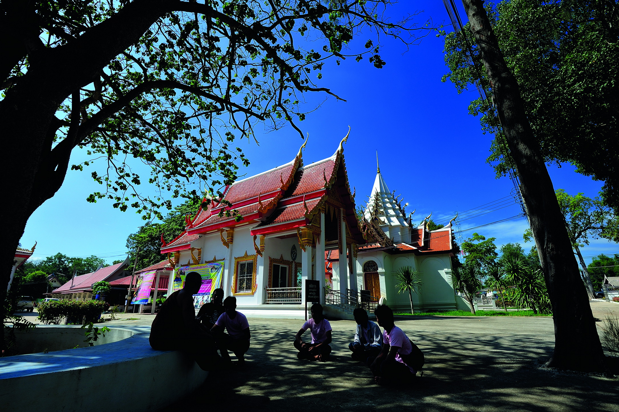 This ancient is located in Makham Tao sub-district, Wat Sing district. As there is a very old big tamarind tree in front of the temple, so the temple was named “Makham Tao” (Old Tamarind). It offers pleasant views, and is well-known for amulets displaying an image of “LuangPu Suk”. Although LuangPu Suk, highly renowned for holy virtues, passed away in 1923, his amulets are still among most sought- after items. Today, the monastery becomes a tourist attraction as it houses a cast image of LuangPu Suk and a sculpture of H.R.H. Prince Abhakara Kiartivongse, Prince of Chumphon. In addition, the ubosot features paintings related to the history of Buddhism created in collaboration with his courtiers.